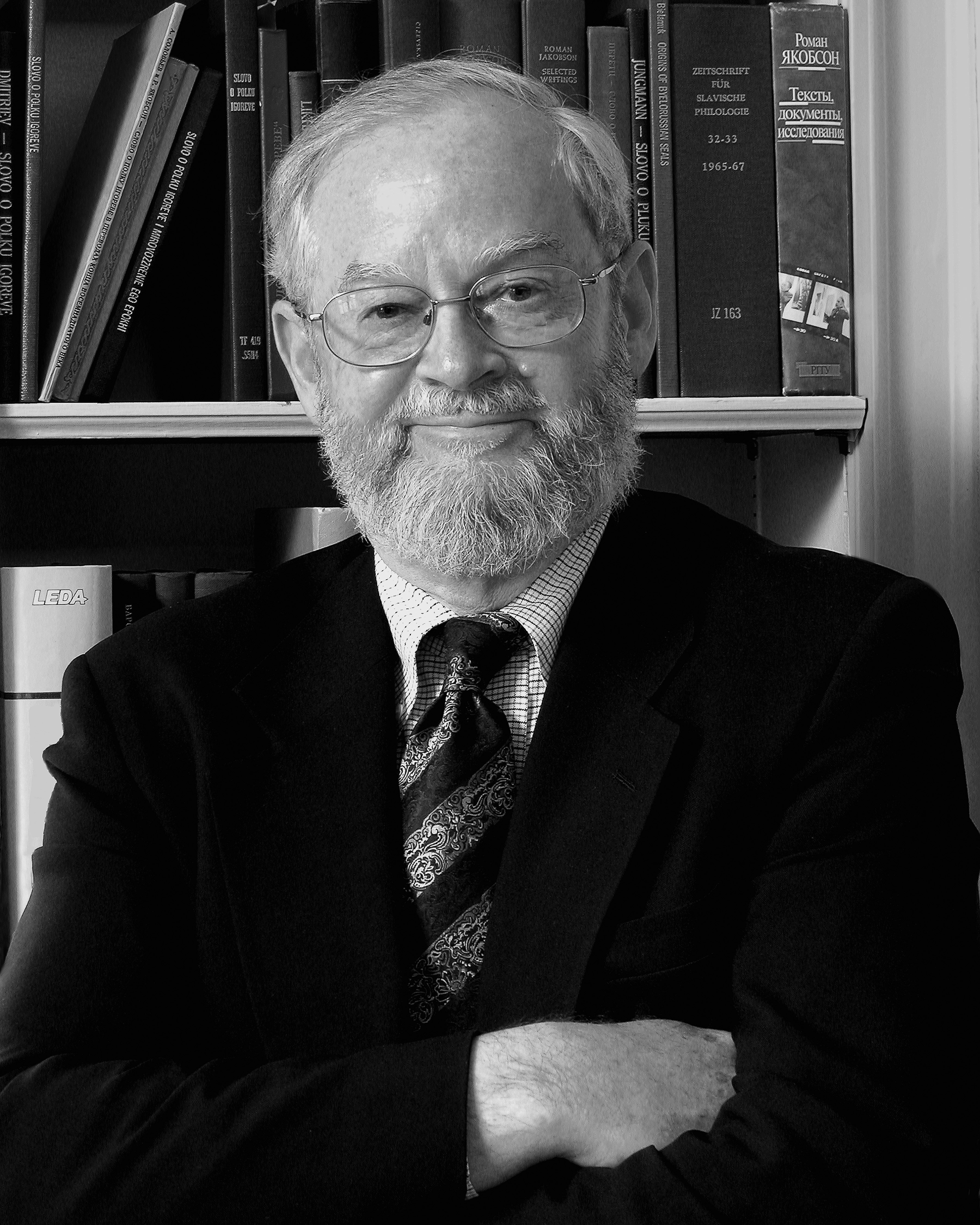 Photograph of Edward L. Keenan during his tenure as Director of Dumbarton Oaks.